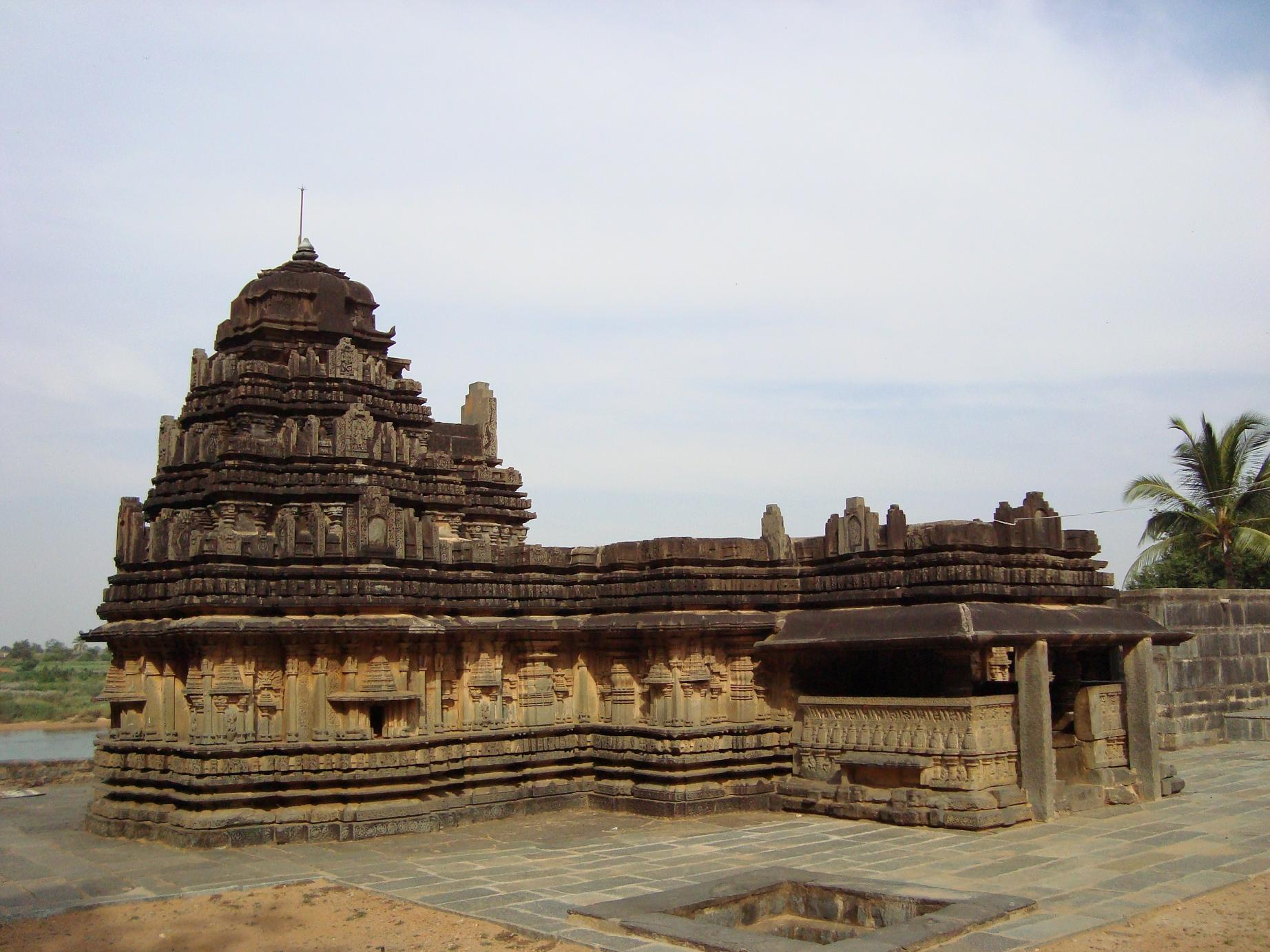 Chaudayyadanapura Mukteshwara temple, Haveri District, North Karnataka, India.